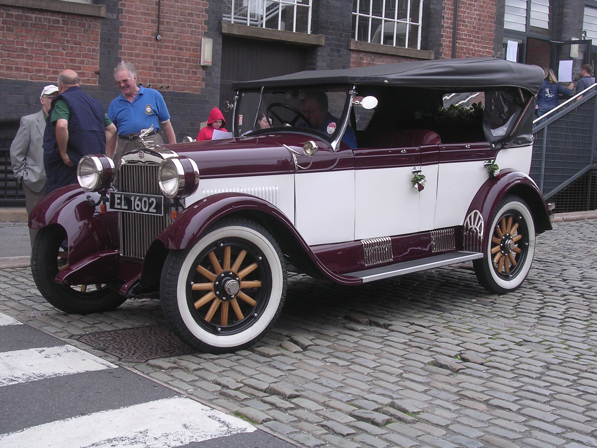 1928 Essex tourer with non-standard (US) headlights."These were assembled at factory in London from unassembled components shipped from Hudson factory in Detroit Michigan."